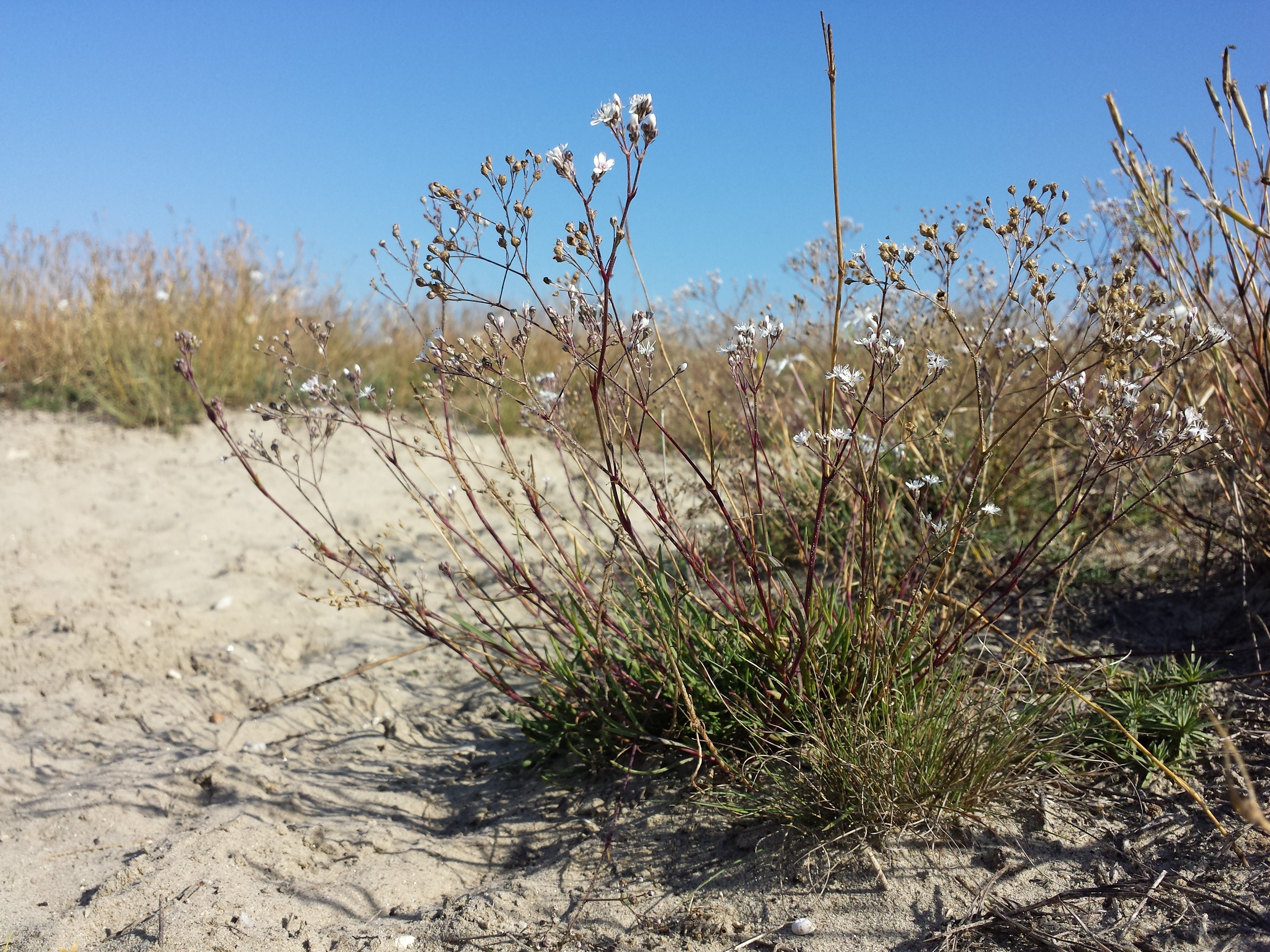 Habitus Taxonym: Gypsophila fastigiata subsp. arenaria ss Fischer et al. EfÖLS 2008 ISBN 978-3-85474-187-9 Location: nature reserve Windmühle, district Gänserndorf, Lower Austria - ca. 145 m a.s.l. Habitat: sand steppe This media shows the nature reserve in Lower Austria with the ID 72.